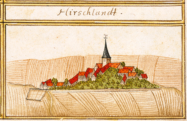 View of Hirschlanden, Ditzingen, from the forest register books created by Andreas Kieser